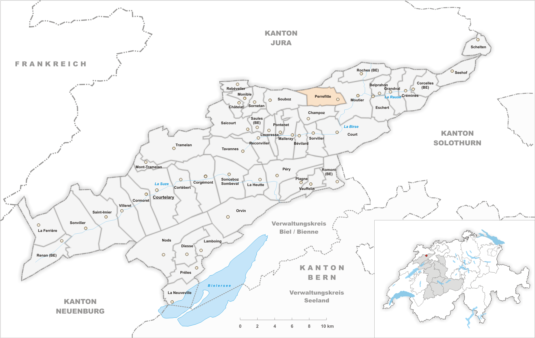 Municipality Perrefitte